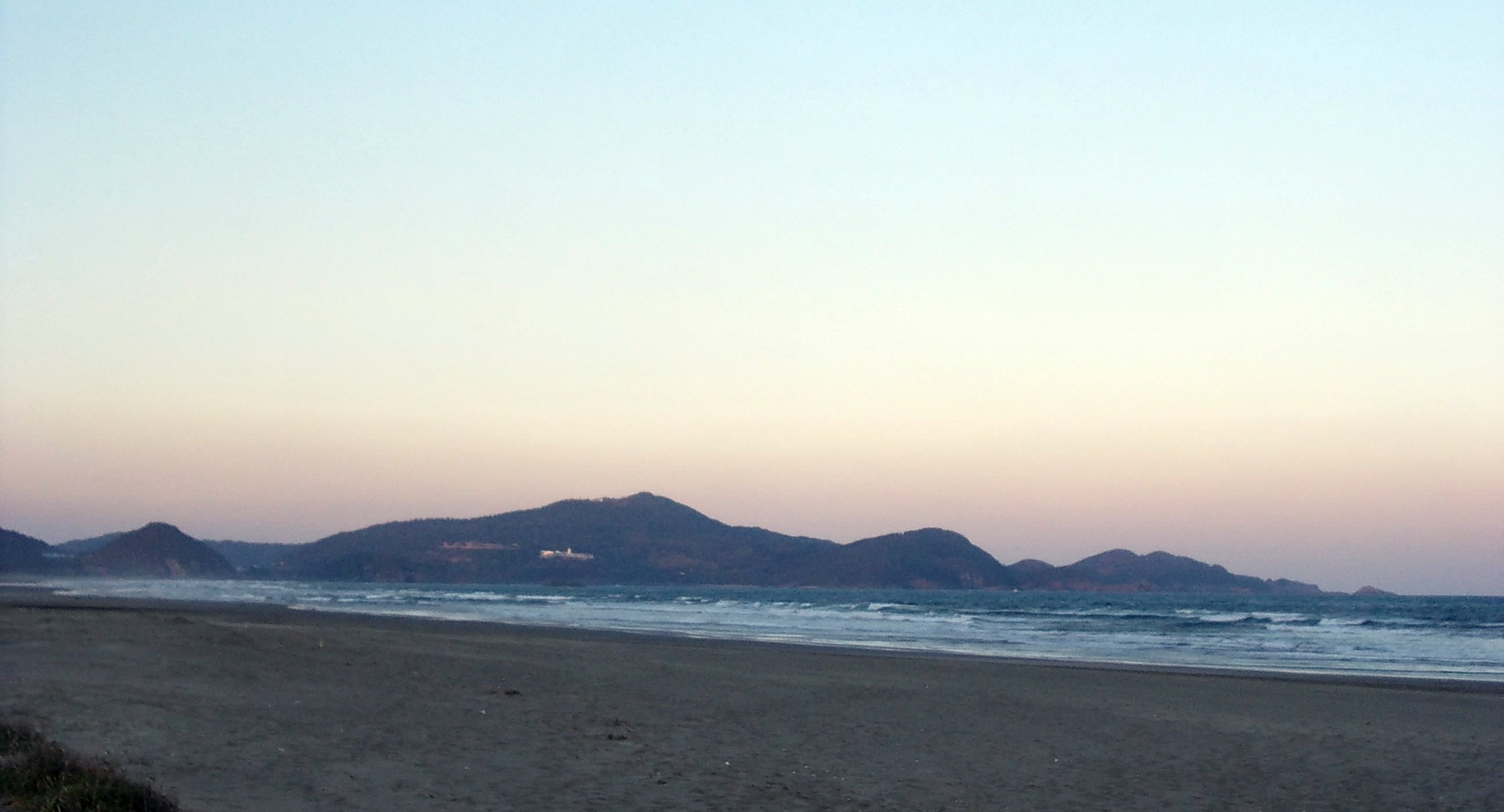 Oguragahama Beach, Hyuga, Miyazaki, Japan